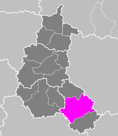 Maps of arrondissements and cantons of France: Arrondissement de Chaumont.PNG